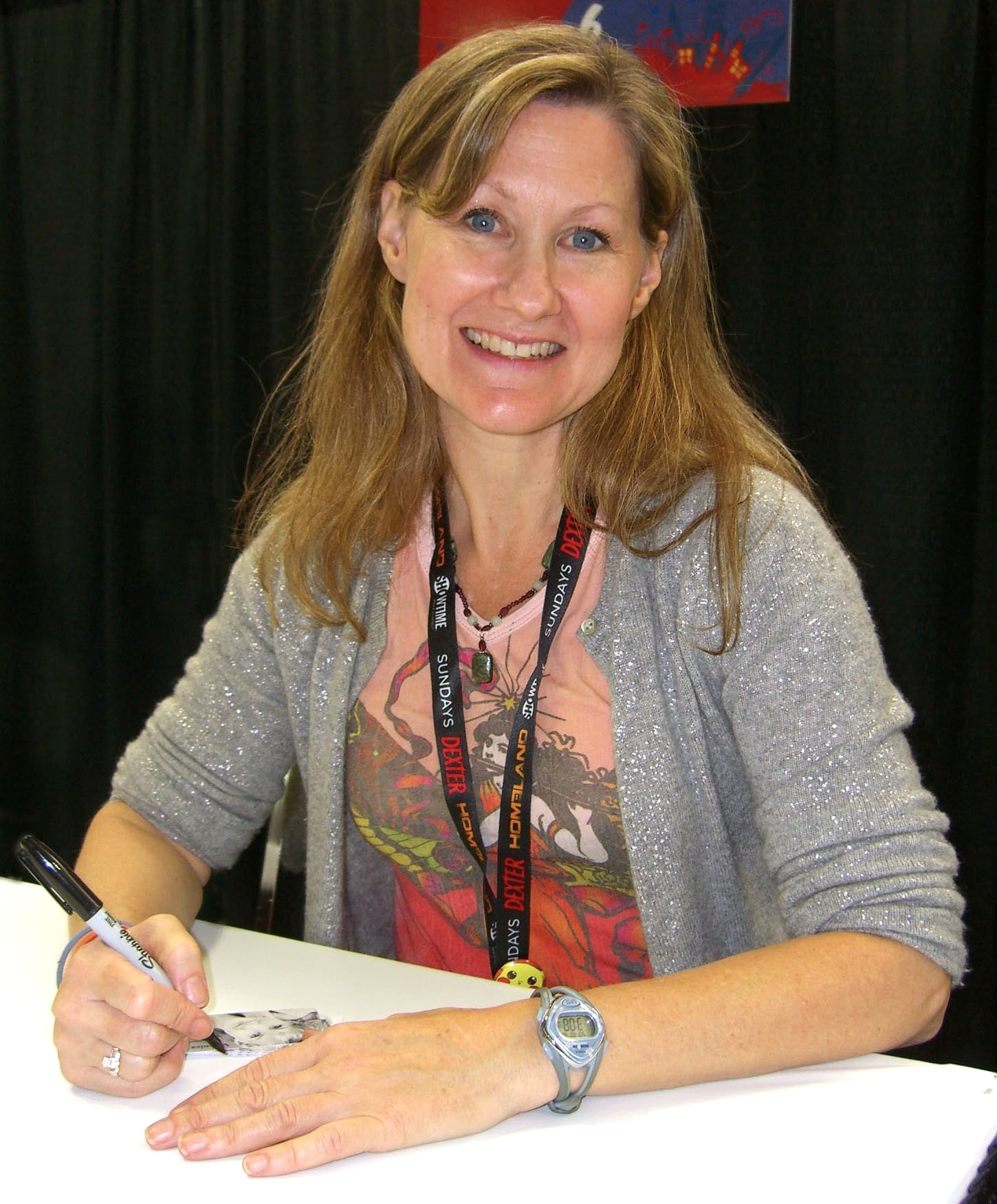 Voice actress Veronica Taylor during an October 16, 2011 appearance at the New York Comic Con in Manhattan. This photo was created by Luigi Novi. It is not in the public domain, and use of this file outside of the licensing terms is a copyright violation.